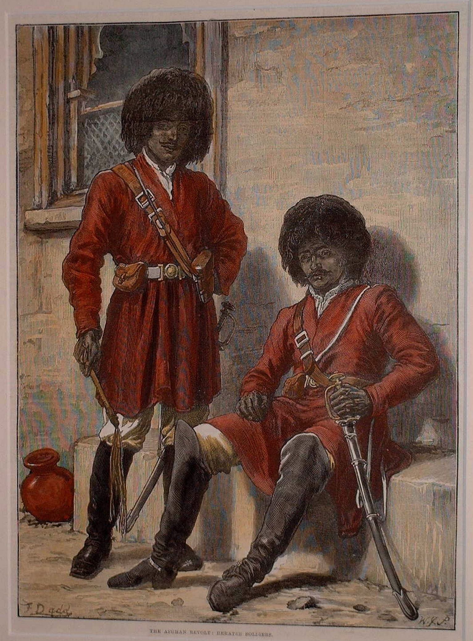 A 1879 image of Herāti soldiers during the Afghan Revolt.